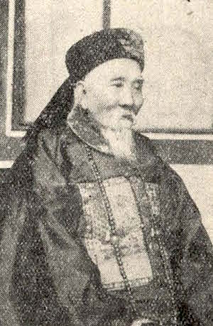 鄭如蘭 Tēⁿ Jû-lân (1835 – 1911)